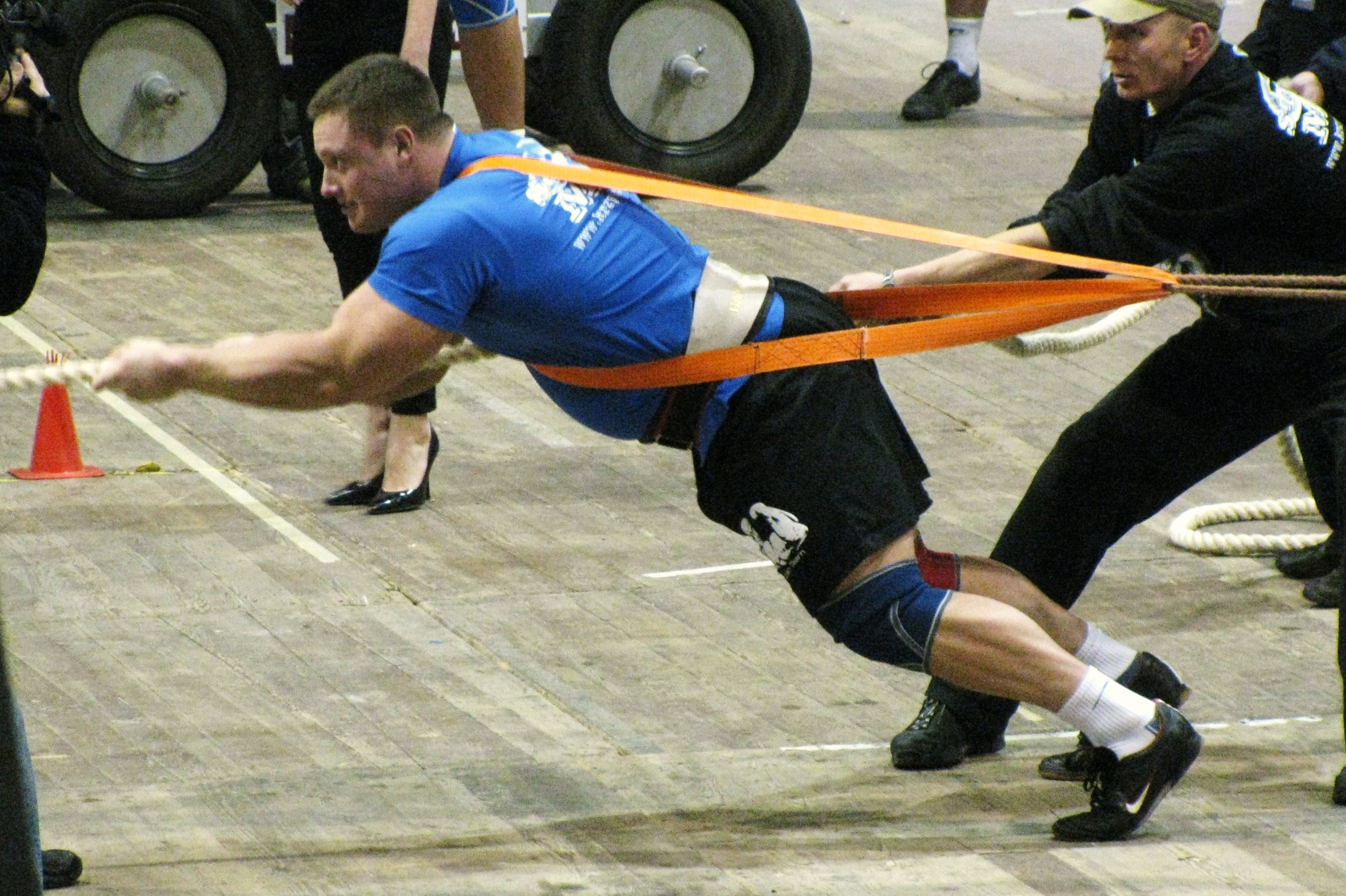 Krzysztof Radzikowski - a strength athlete from Poland